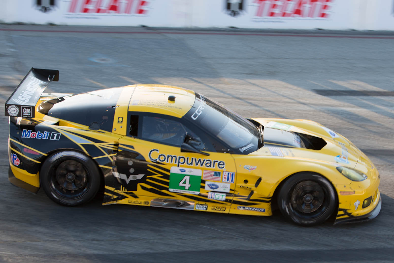 Oliver Gavin driving the Corvette Racing C6.R at the 2012 American Le Mans Series at Long Beach.